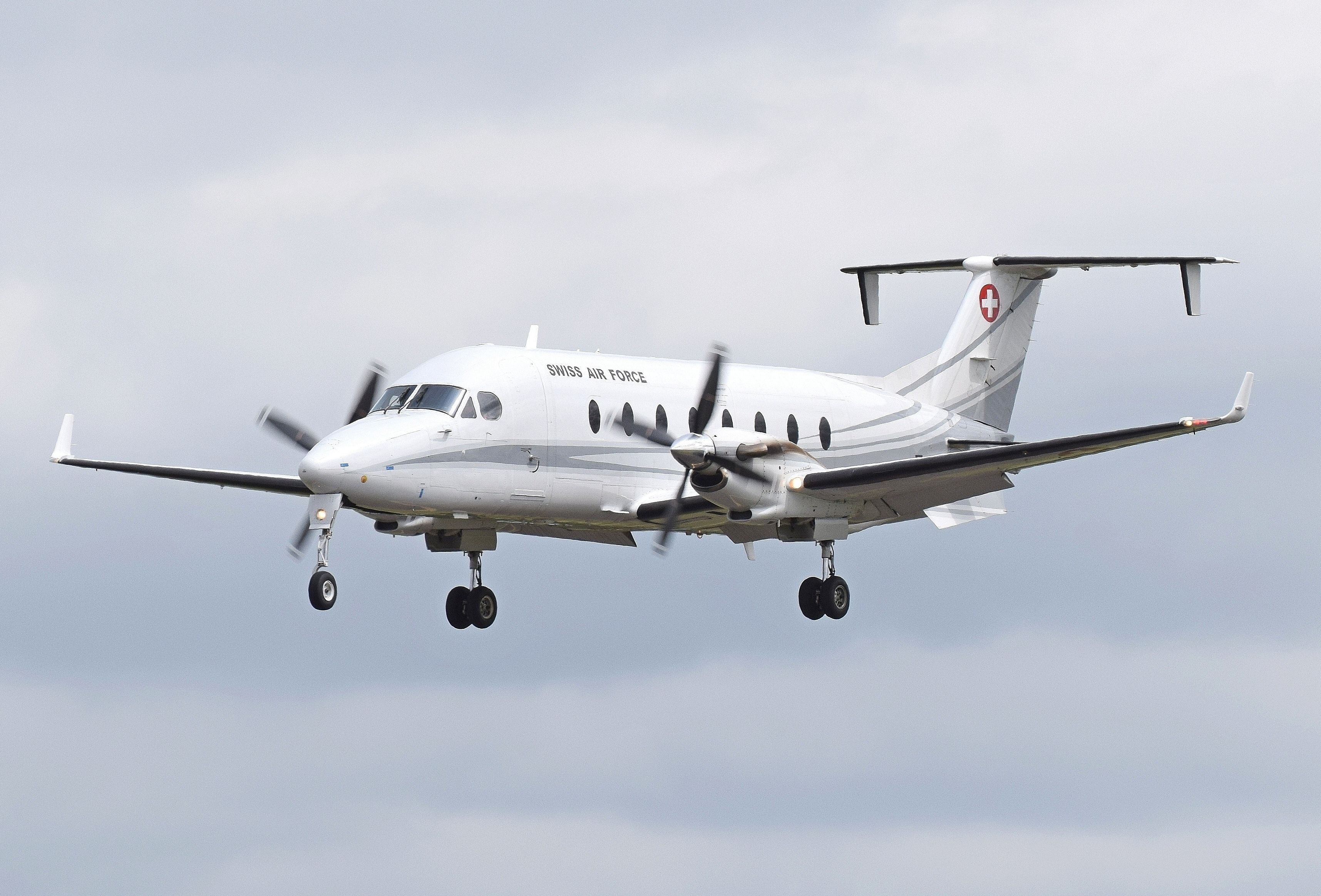 Beechcraft 1900D (code T-729) of the Swiss Air Force arrives at the 2016 Royal International Air Tattoo, RAF Fairford, England. Manufactured by Raytheon Beechcraft in Wichita, Texas, USA. This aircraft was built 1997 and carries 18 passengers.